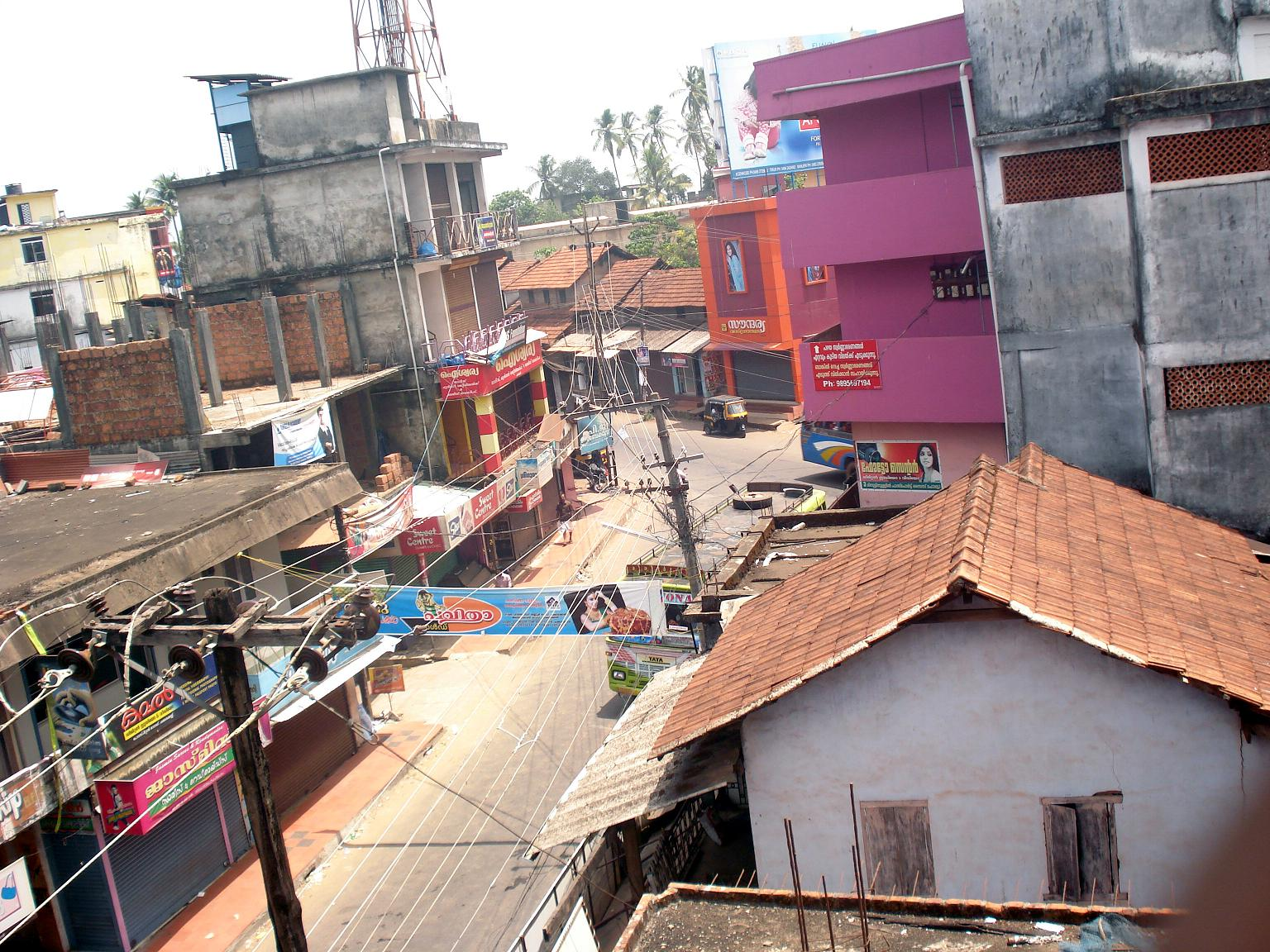 Chakkarakkal town A small town in Kannur, Kerala, 10 kilometers away from Kannur town.